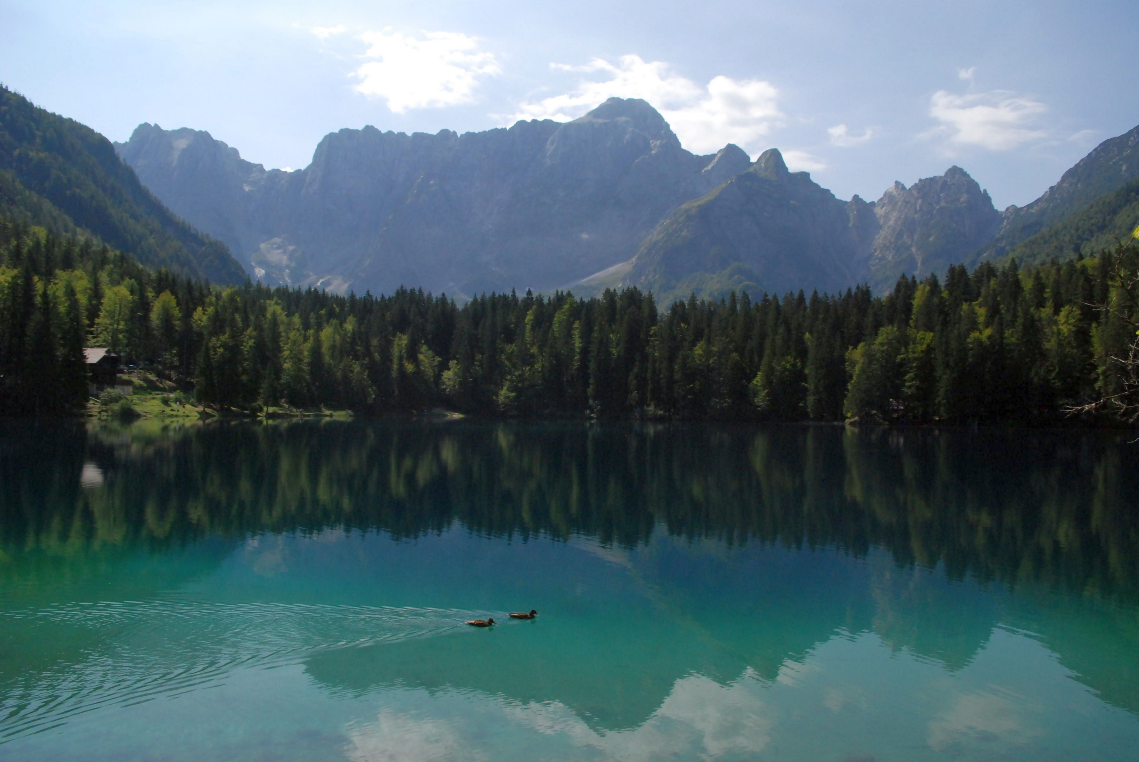 Fusine Lakes. The Lower Lake.